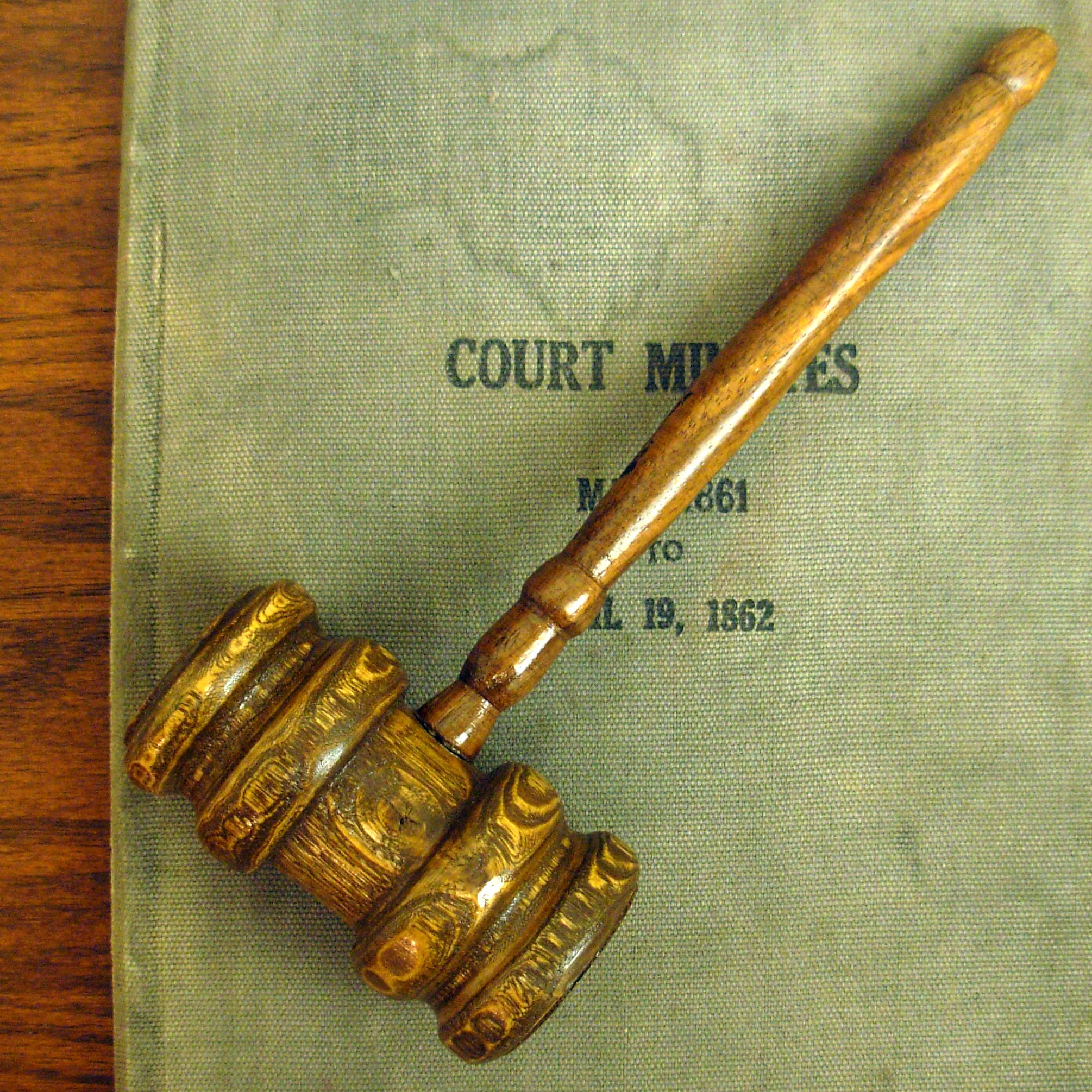 Old gavel and court minutes displayed at the Minnesota Judicial Center